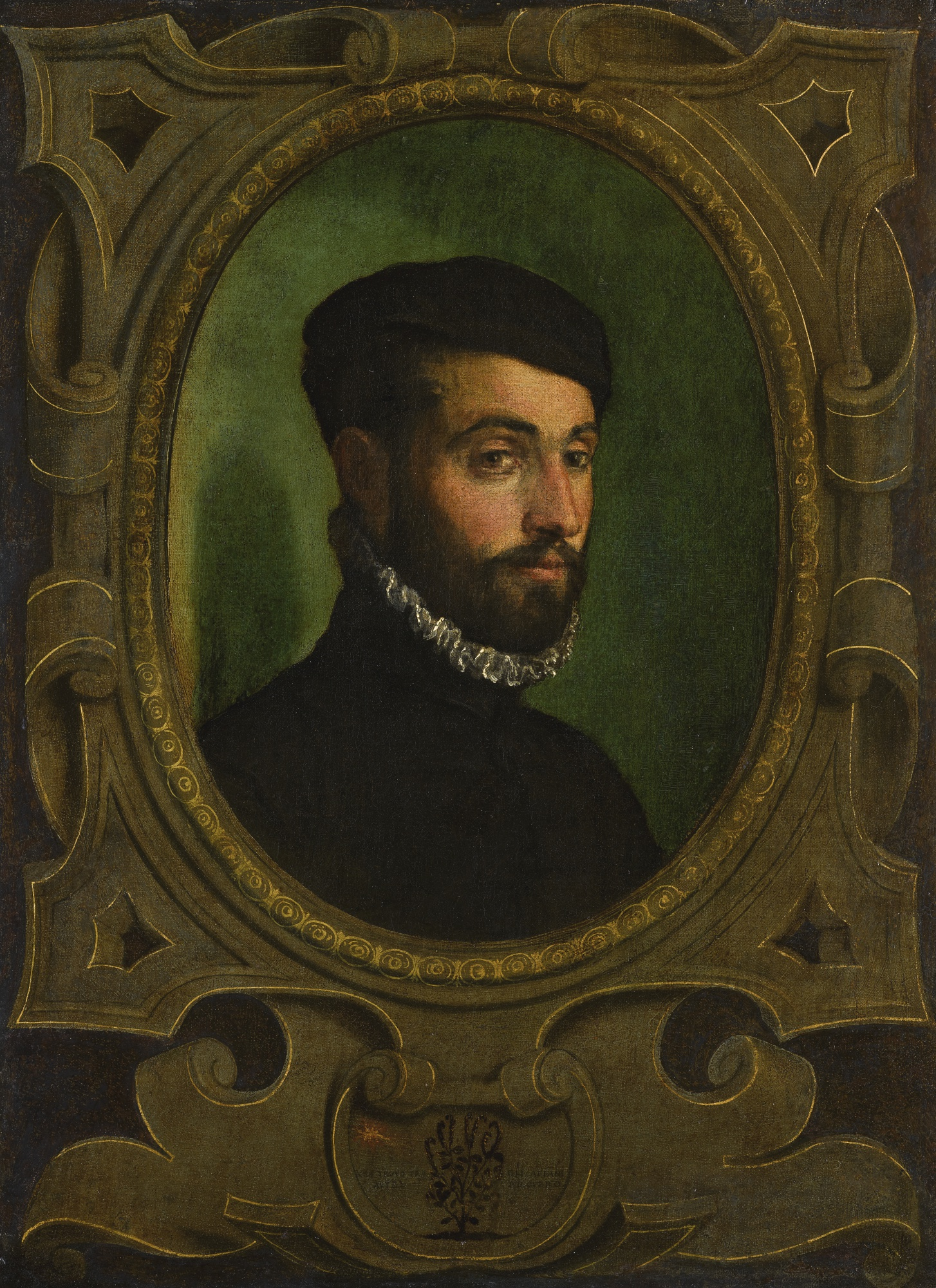 Jacopo dal Ponte, Portrait of Torquato Tasso, aged 22. Inscribed with the device of comet and a tree and the motto: 'NON TROVO TRA GLI AFFANI/ ALTRO RICOVERO' (‘I FIND NO OTHER SHELTER FROM HARDSHIP’ [than in the arts]), XVI century, oil on canvas, 62 x 46 cm.; 24⅜ x 18⅛ in.